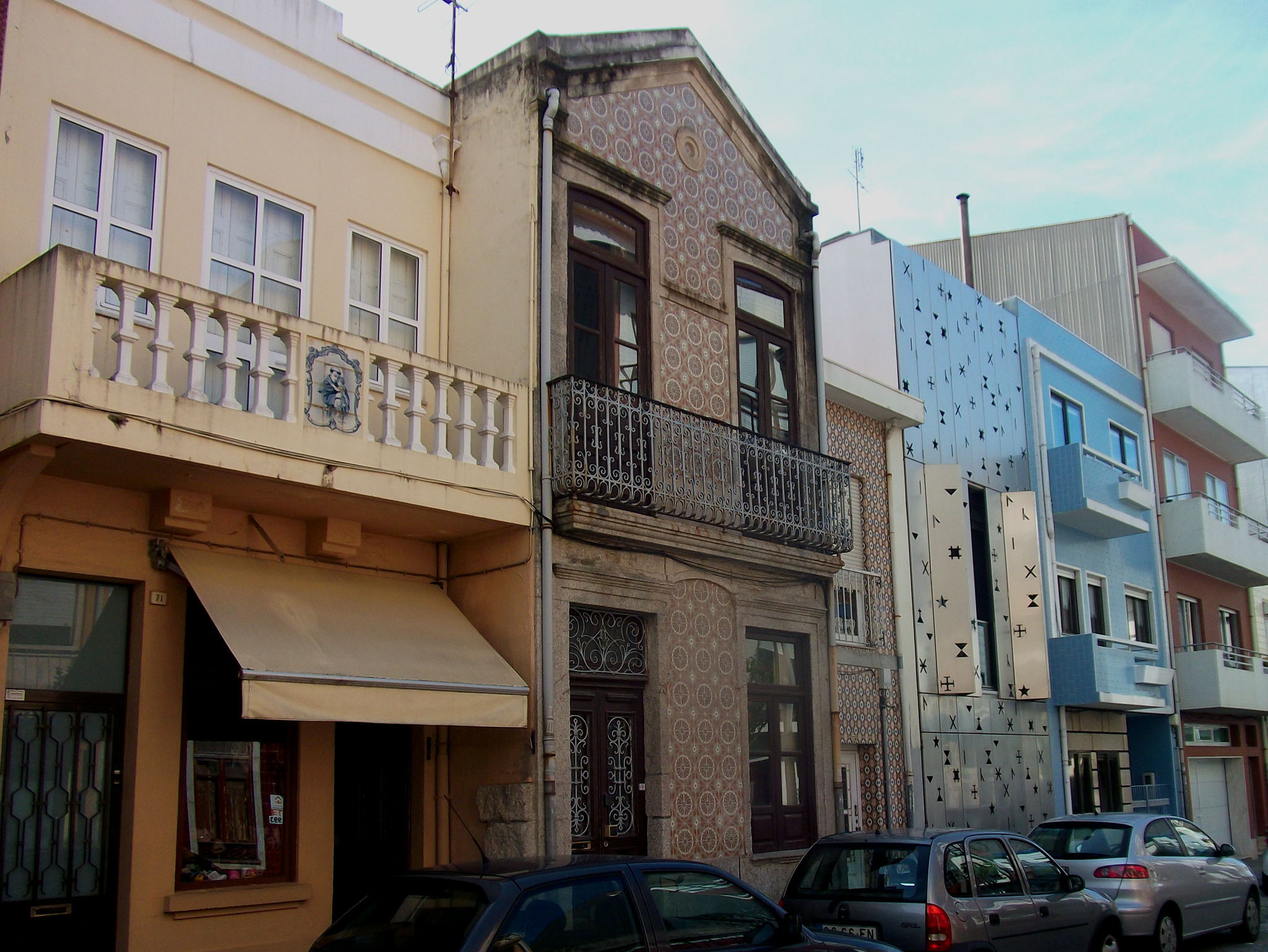 Rua do Norte, Póvoa de Varzim, Portugal